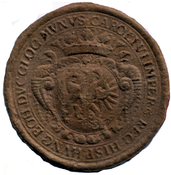 Holy Roman Emperor, King of Spain (Hispania), Hungary, Bohemia